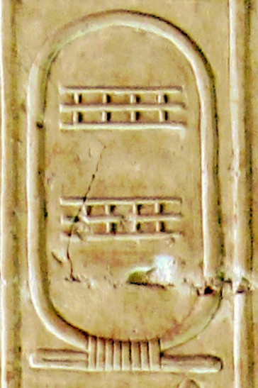 Cartouche 5, Abydos King List. Temple of Seti I, Abydos, Egypt.